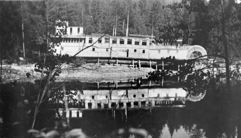 Hulk of the sternwheeler International, at Galena Bay on Kootenay Lake, some time after 1908.